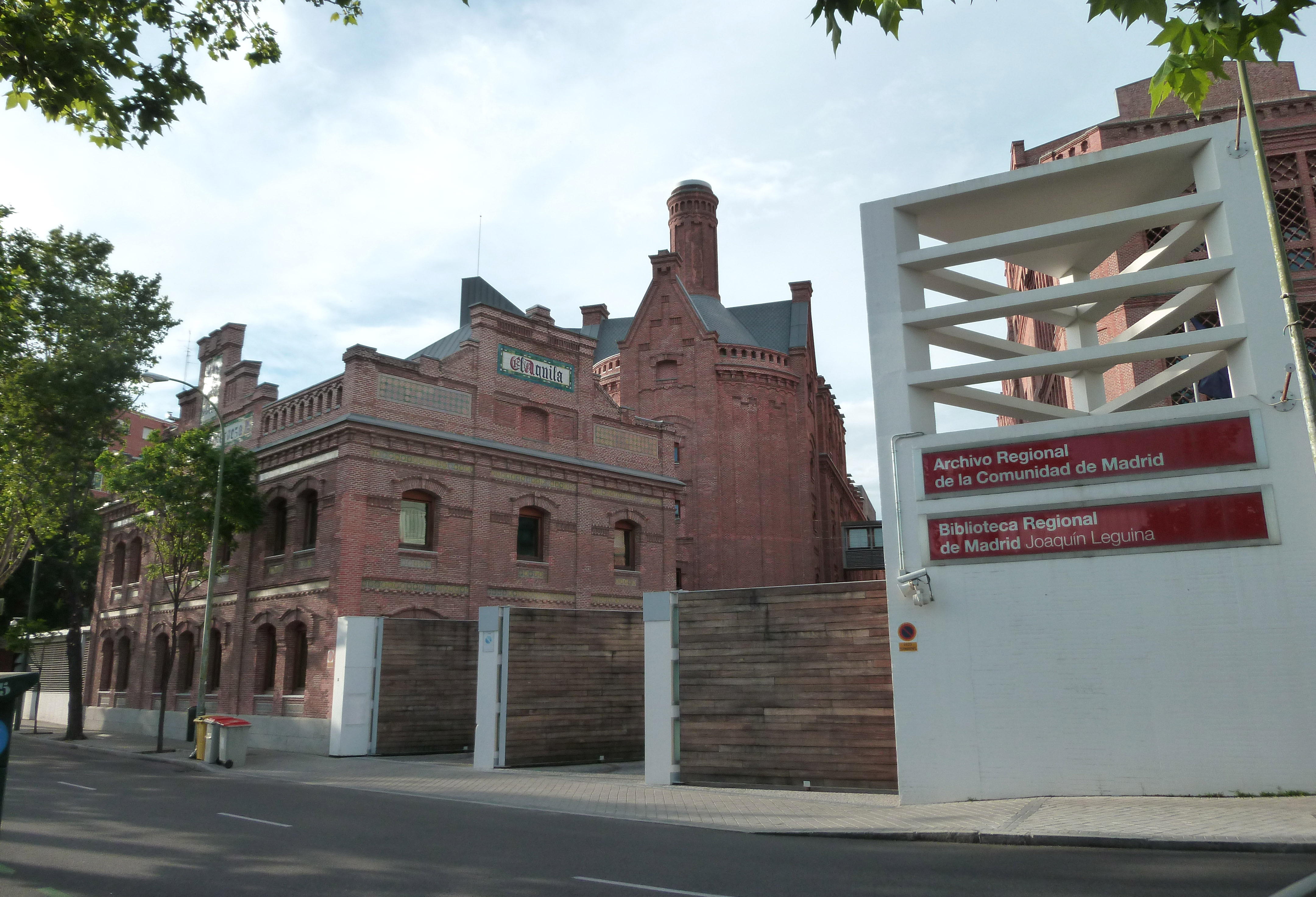 Façade of Biblioteca Regional Joaquín Leguina (a library) in Madrid (Spain).